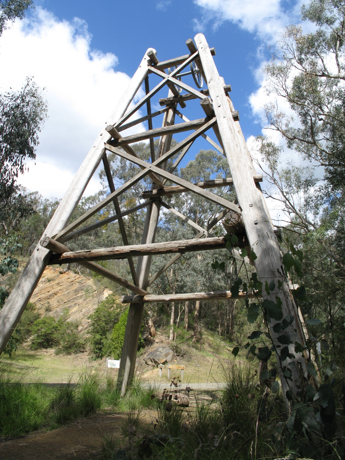 The headframe at Whipstick Gully in the Warrandyte State Park, Warrandyte, east of Melbourne, Victoria, Australia. Photo taken by myself in Docember 2008.